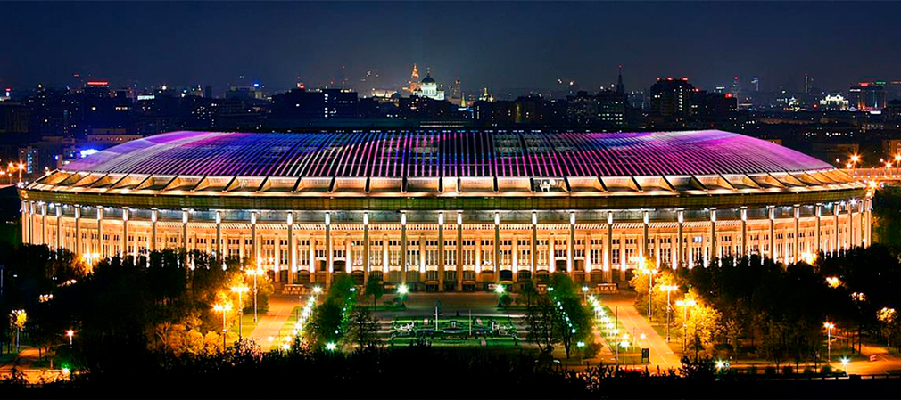 Exterior of Luzhniki Stadium